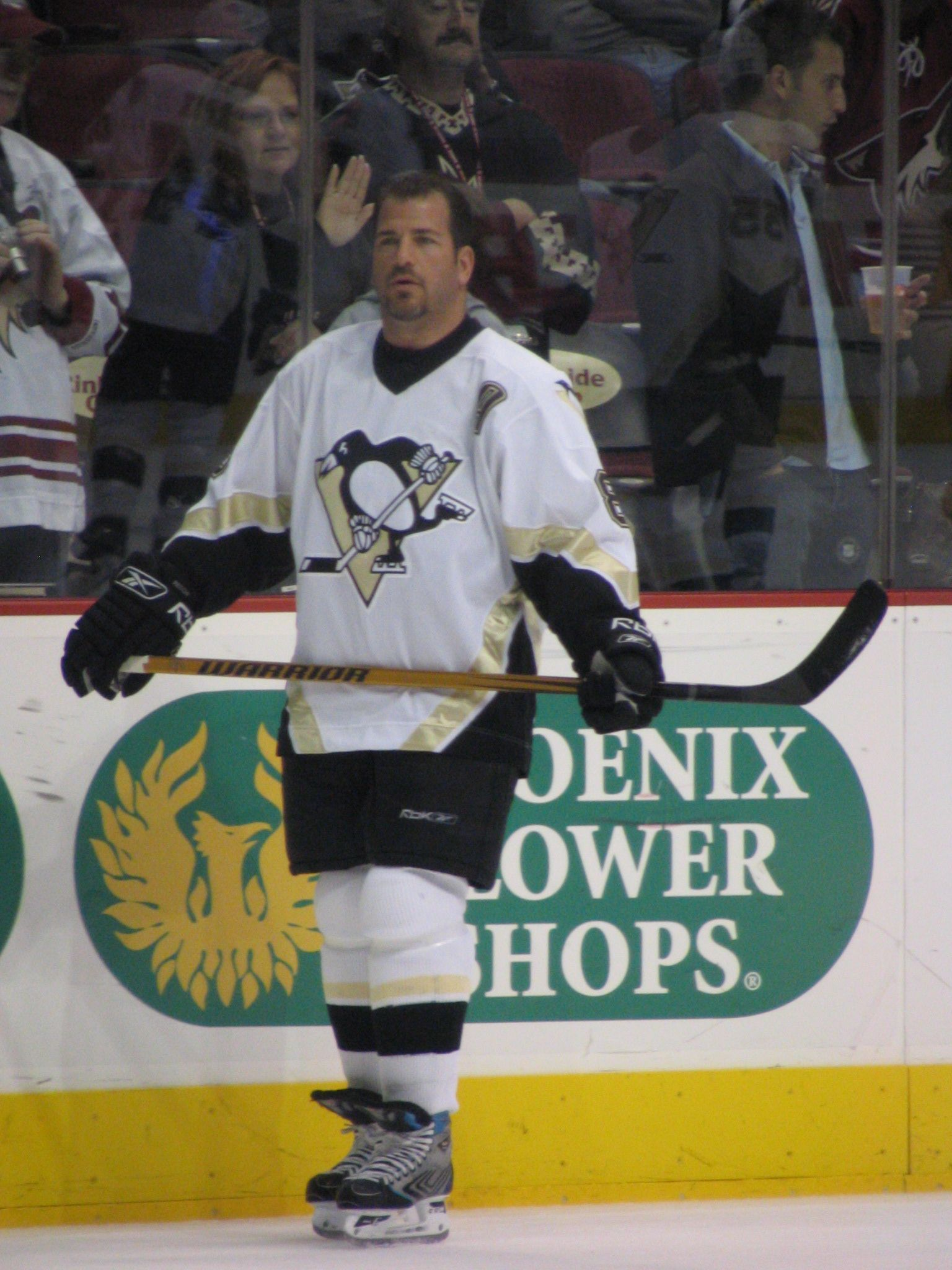 Pittsburgh Penguins @ Phoenix Coyotes - Arena, January 27, 2007